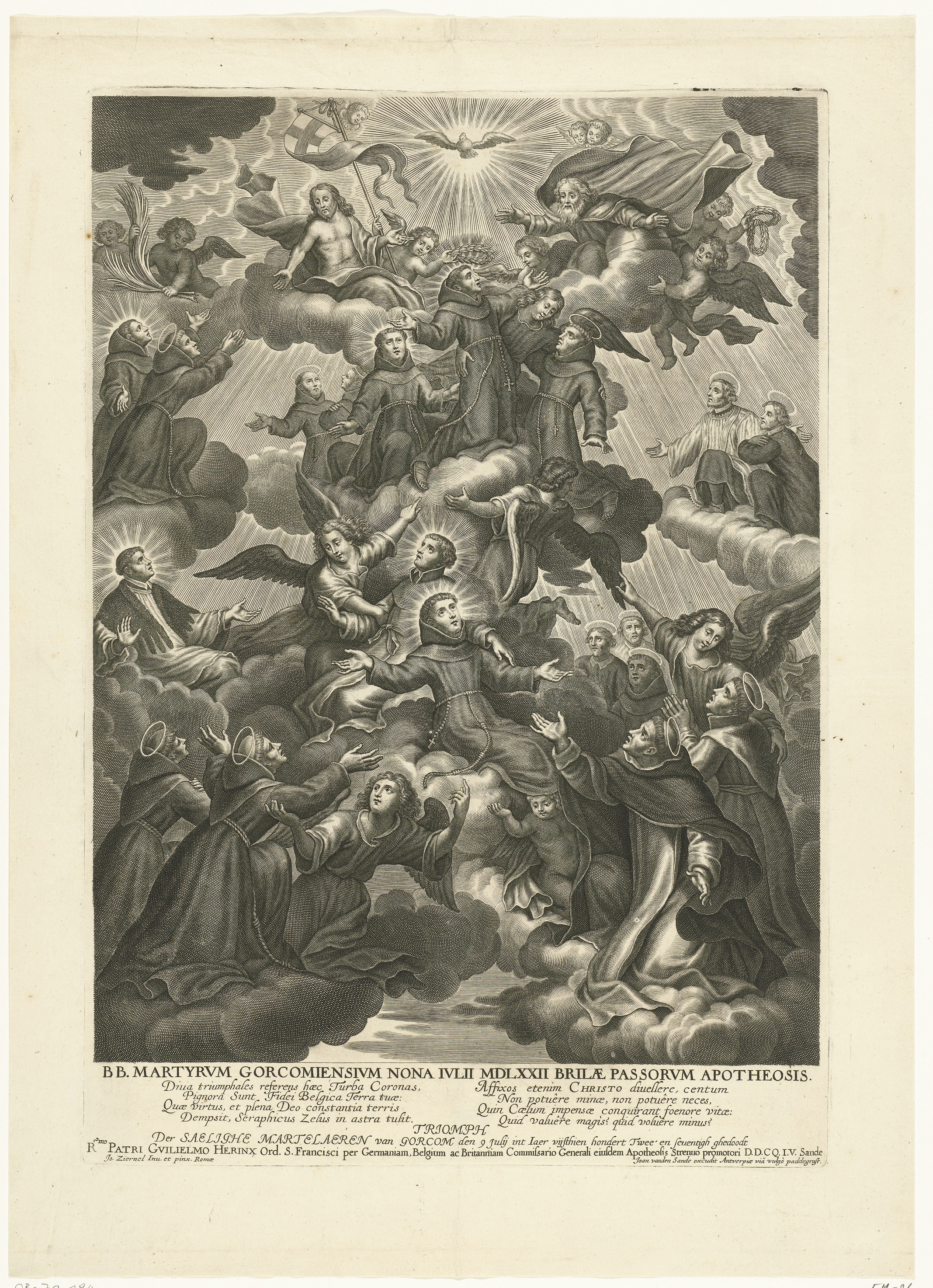 Apotheosis of the Martyrs of Gorkum,1572, printmaker: Jean-Baptiste Nolin, after a painting by Johan Zierneels, Joannes van den Sande, print, dated 1675, engraving, 463 × 320 mm, Rijksmuseum Amsterdam